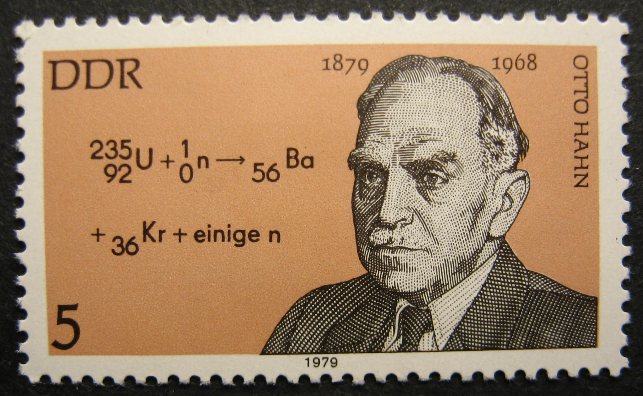 Stamp of Otto Hahn